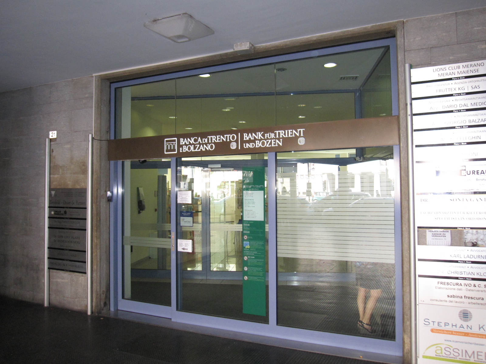 Bank für Trient und Bozen in Meran, South Tyrol.